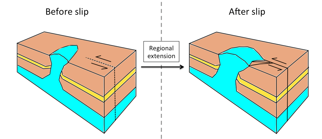 before and after slip(2)